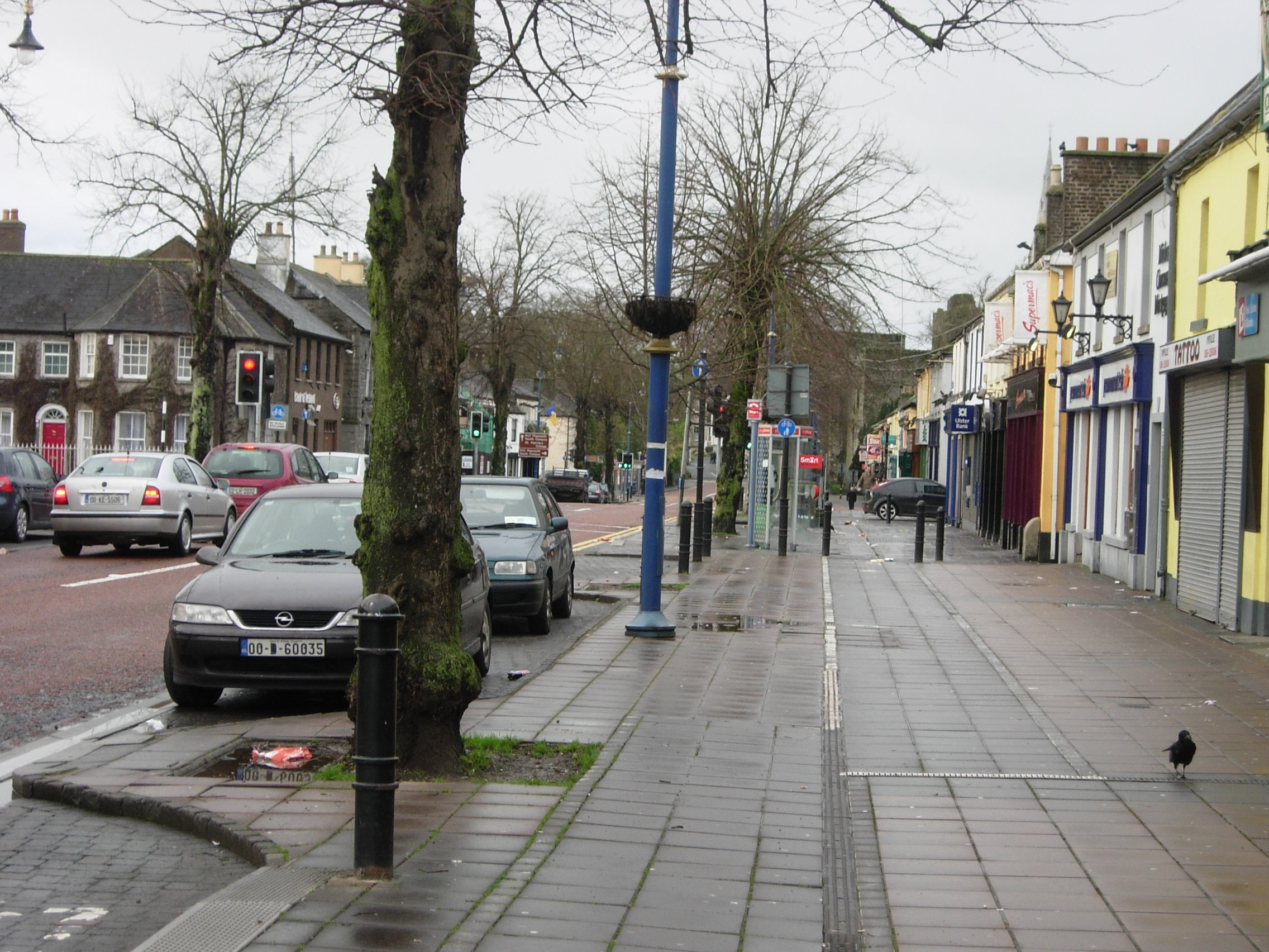 Maynooth town centre